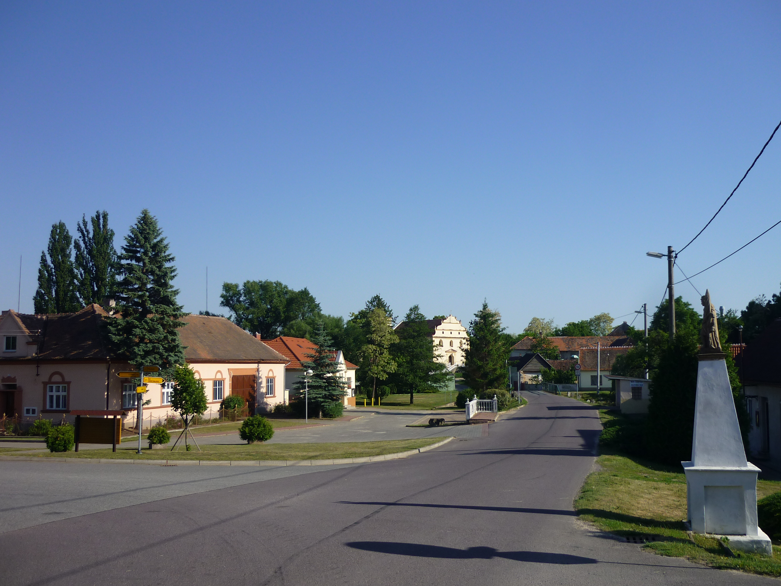 Village green in Horní Dunajovice